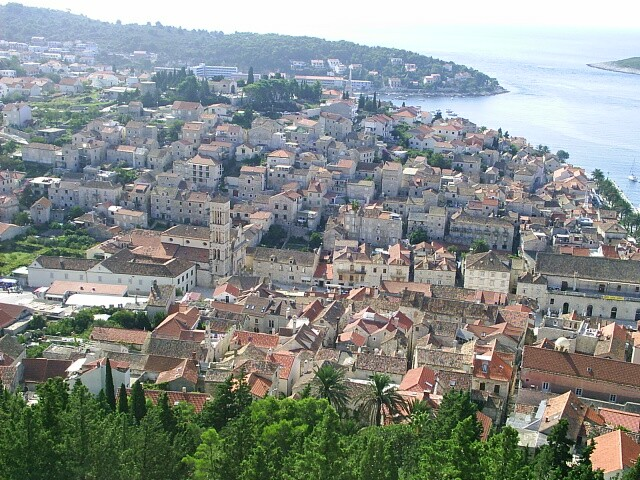 Town of Hvar on the island of the same name, Croatia